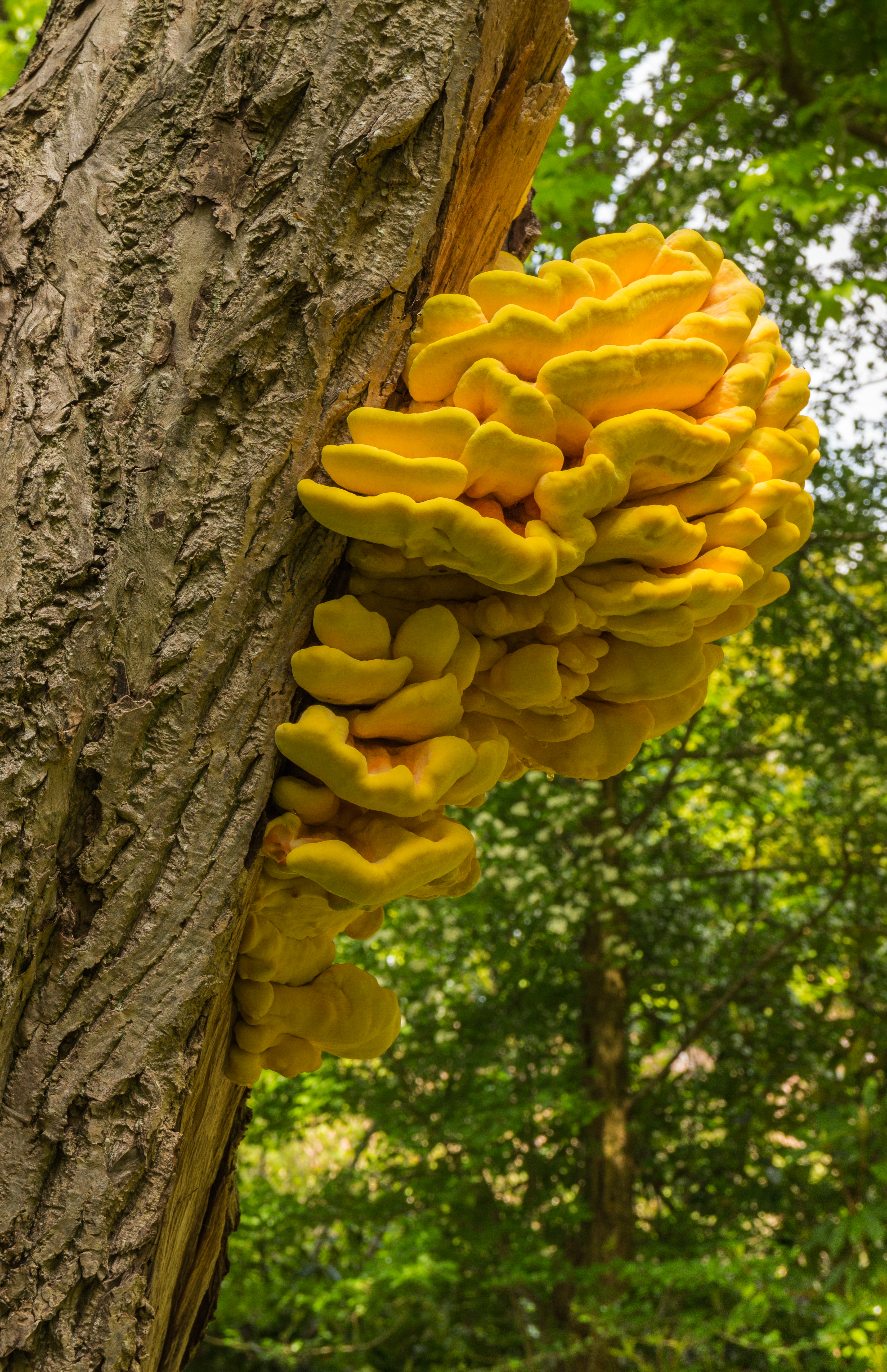 Hortus Haren. ( Laetiporus sulphureus ) on ( Ginkgo biloba ).